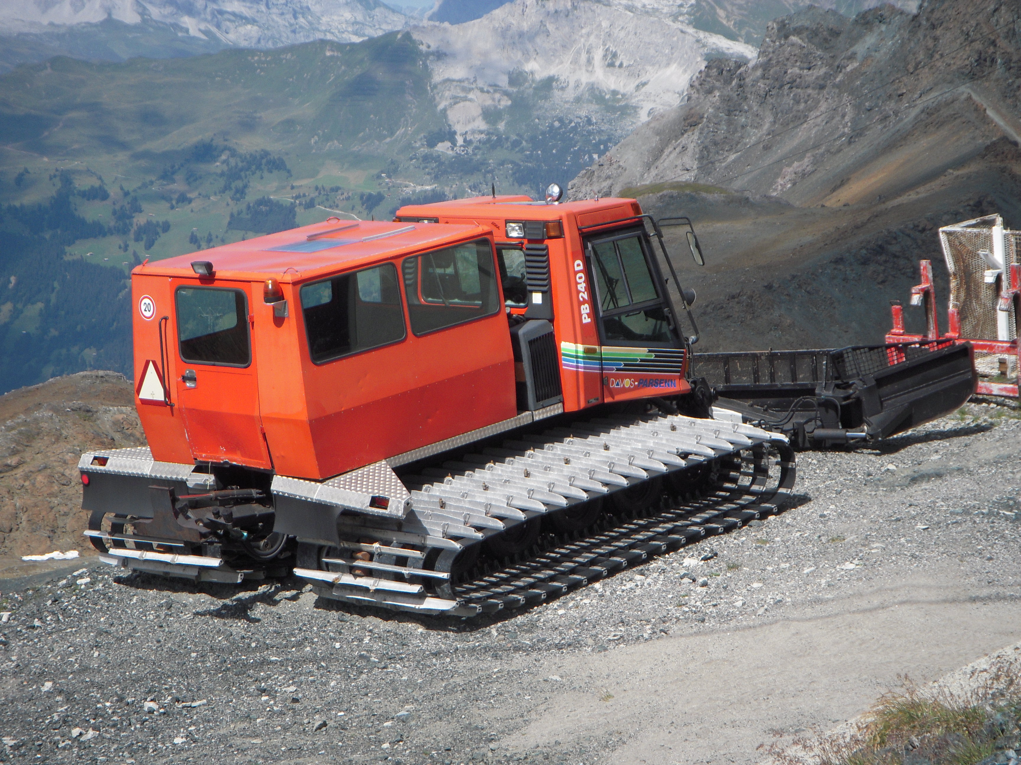 Snpw groomer, PistenBully 240 D, on Weissfluhjoch, Parsenn, Davos. August 15, 2012.